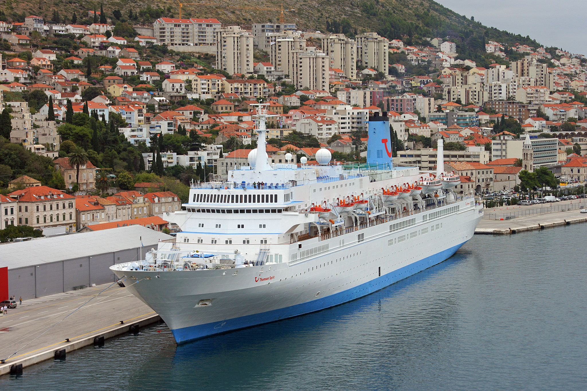 The cruise ship Thomson Spirit moored at Dubrovnik on October 13, 2010.